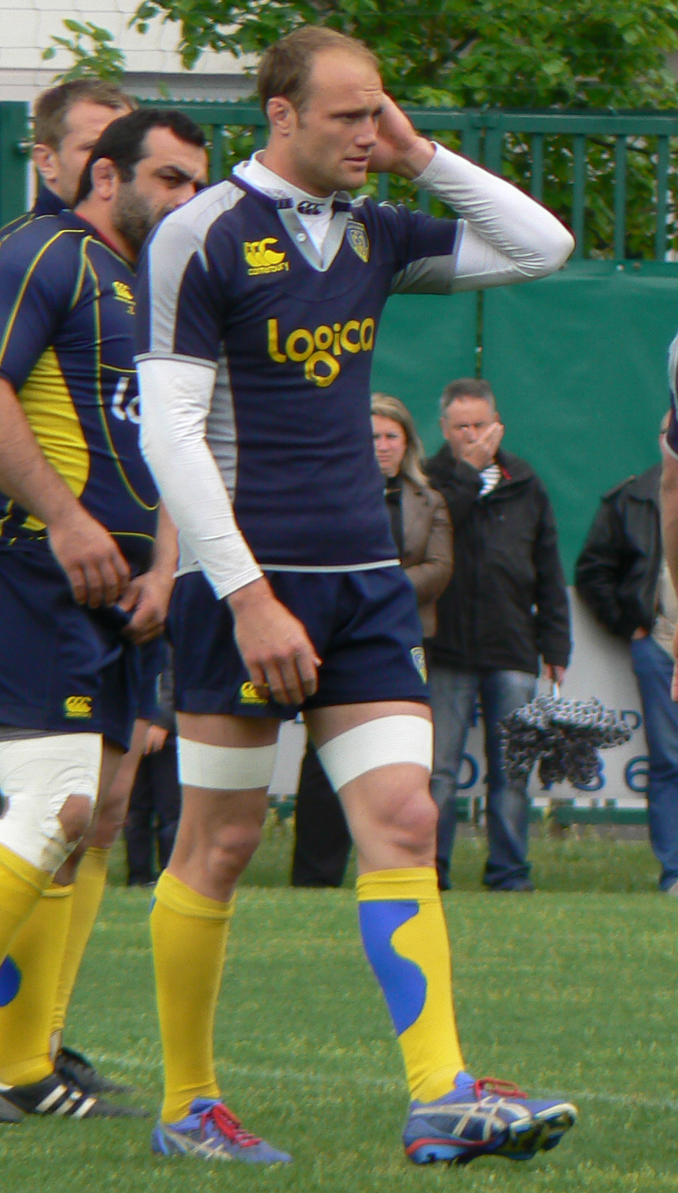 The french rugbyman Julien Bonnaire with ASM Clermont Auvergne